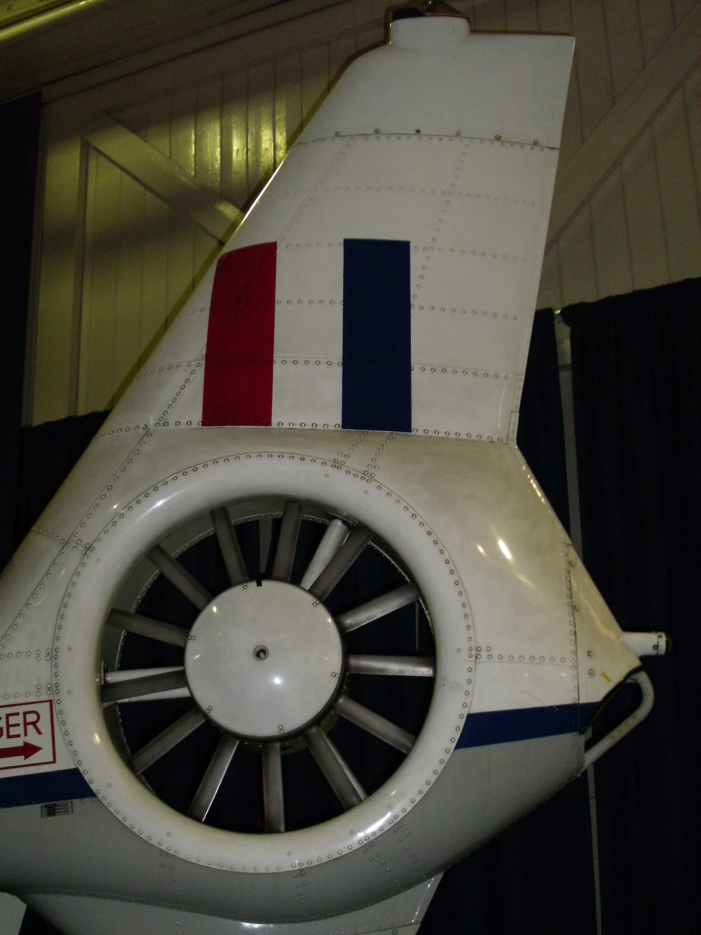 The "Fenestron\" of a Westland/A�rospatiale Gazelle helicopter. A shrouded tail fan that replaces the traditional open tail rotor on this aircraft. It was introduced in 1968, one year after the first Gazelle prototype flew, and became a trademark of this helicopter. This photo was taken as part of Britain Loves Wikipedia in February 2010 by Adam Morgan.